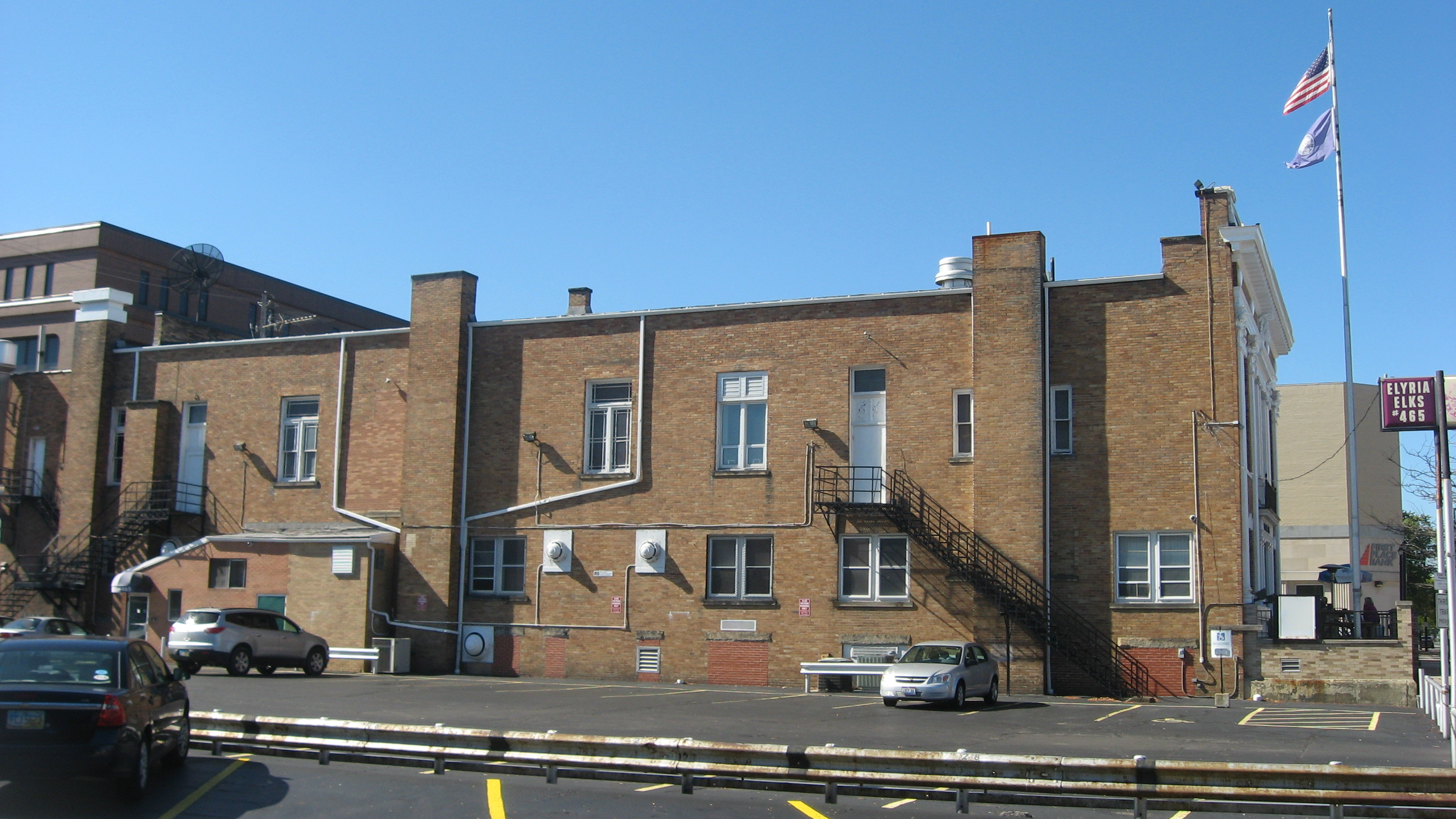 Eastern side of the Elyria Elks Club, located at 246 Second Street in Elyria, Ohio, United States. Built in 1911, it is listed on the National Register of Historic Places, and it is part of a Register-listed historic district, the Elyria Downtown-West Avenue Historic District.